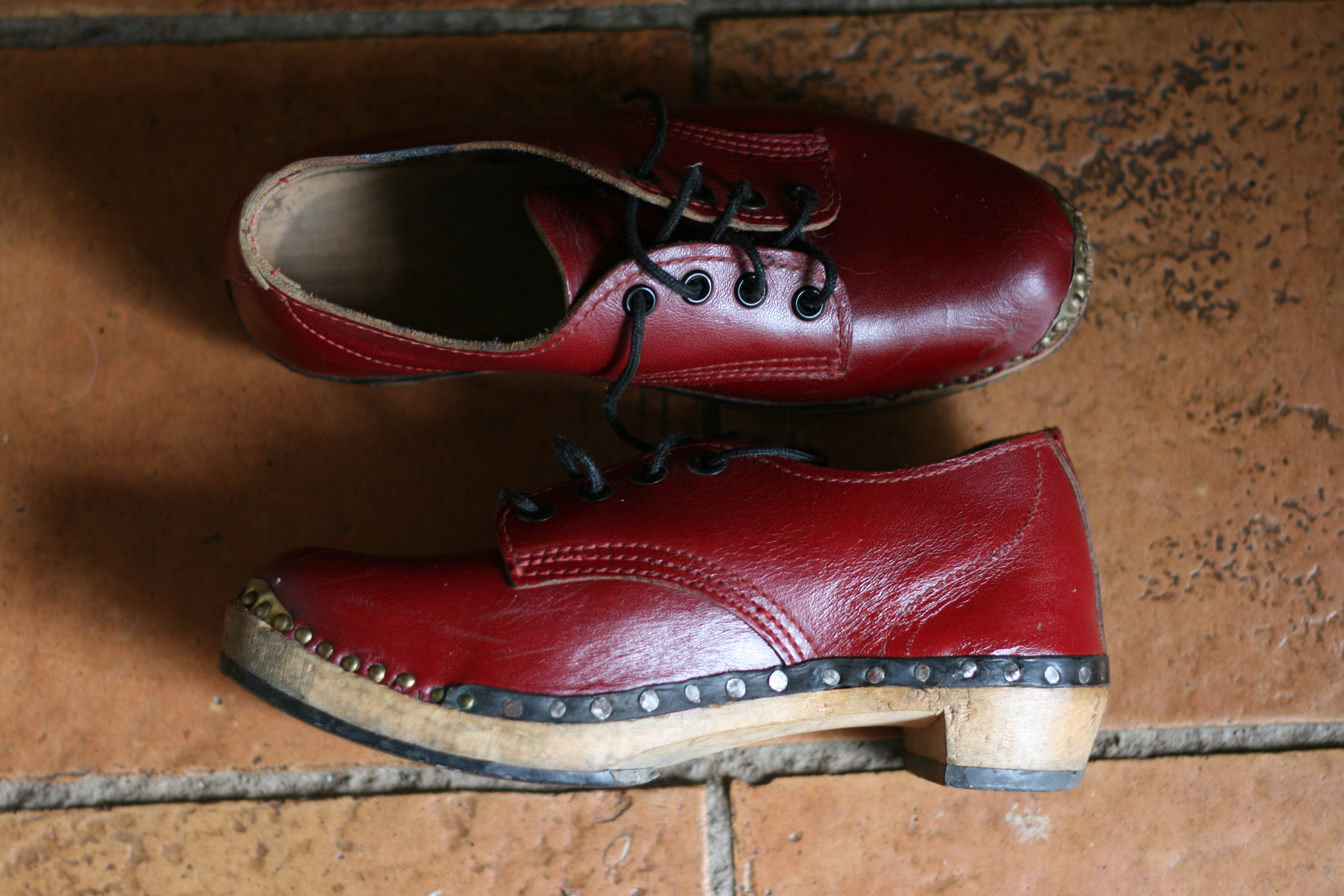 Side view of Lancashire clogs (red) made circa 1983. Shows wooden sole and plastic additions to toe and heel.